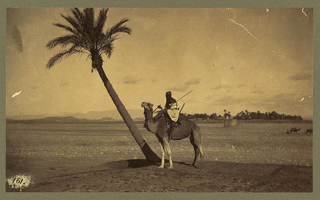 Man on camel next to a slanting palm tree, desert in background